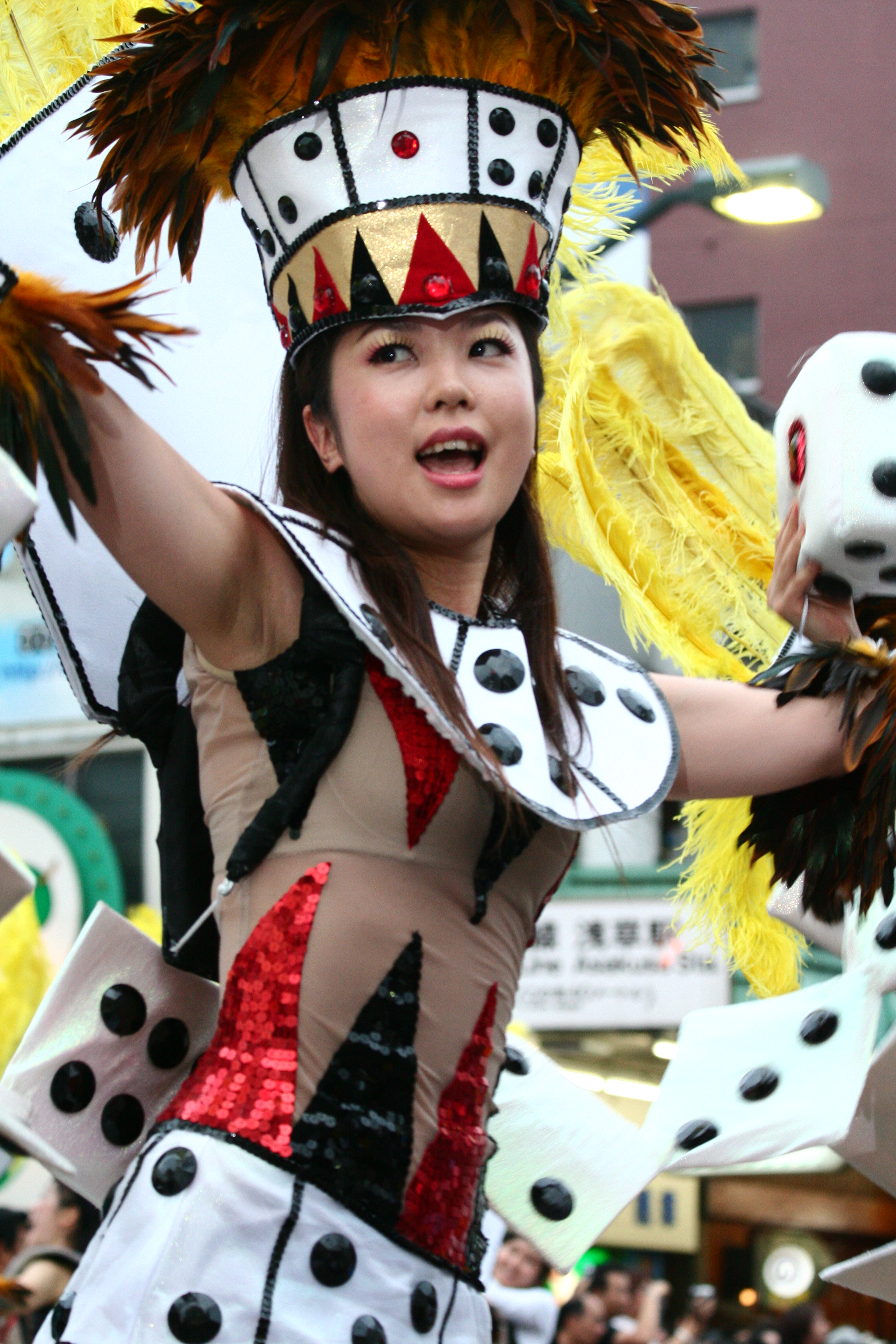 Asakusa Samba Carnival, annualy held in Asakusa, Tokyo, Japan.